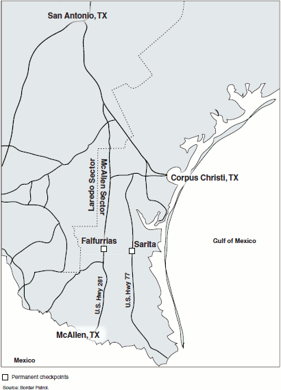 US Border checkpoints in the McAllen, Texas sector